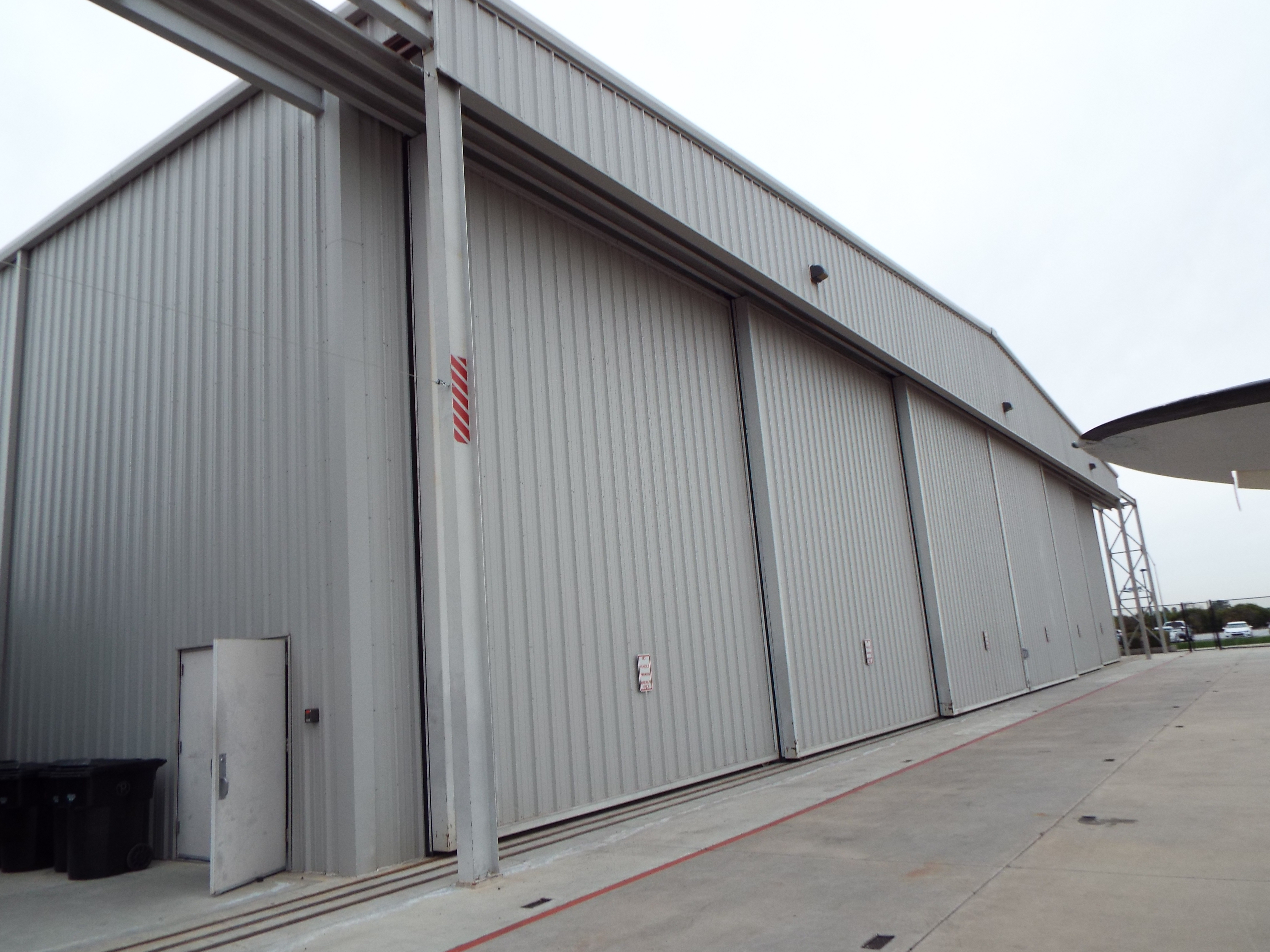 Arizona Commemorative Air Force Museum' in Mesa, Az.